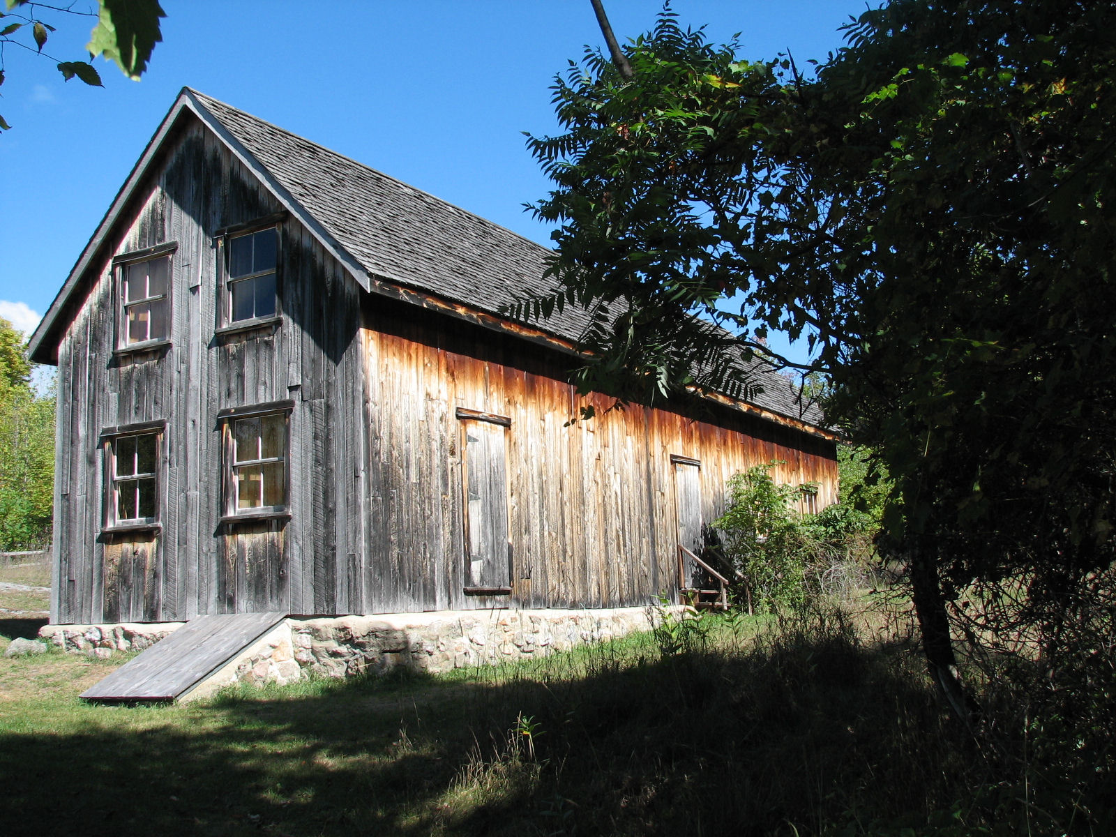 Bunkhouse for Silver Queen Miners at Murphys Point Provincial Park, Perth, Ontario